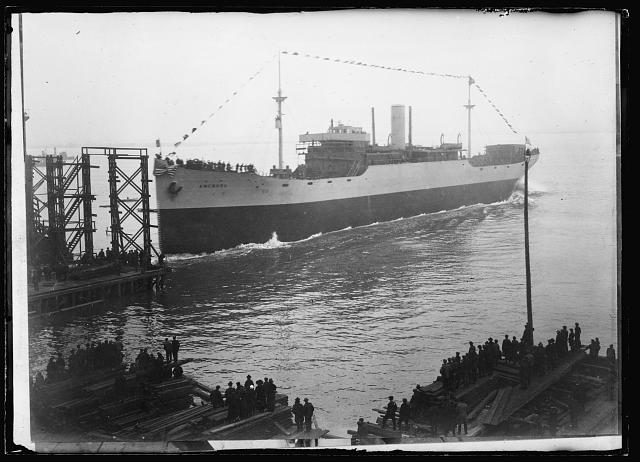 Launch of the Amcross at the Merchant Shipbuilding Corportion in Chester, Pennsylvania